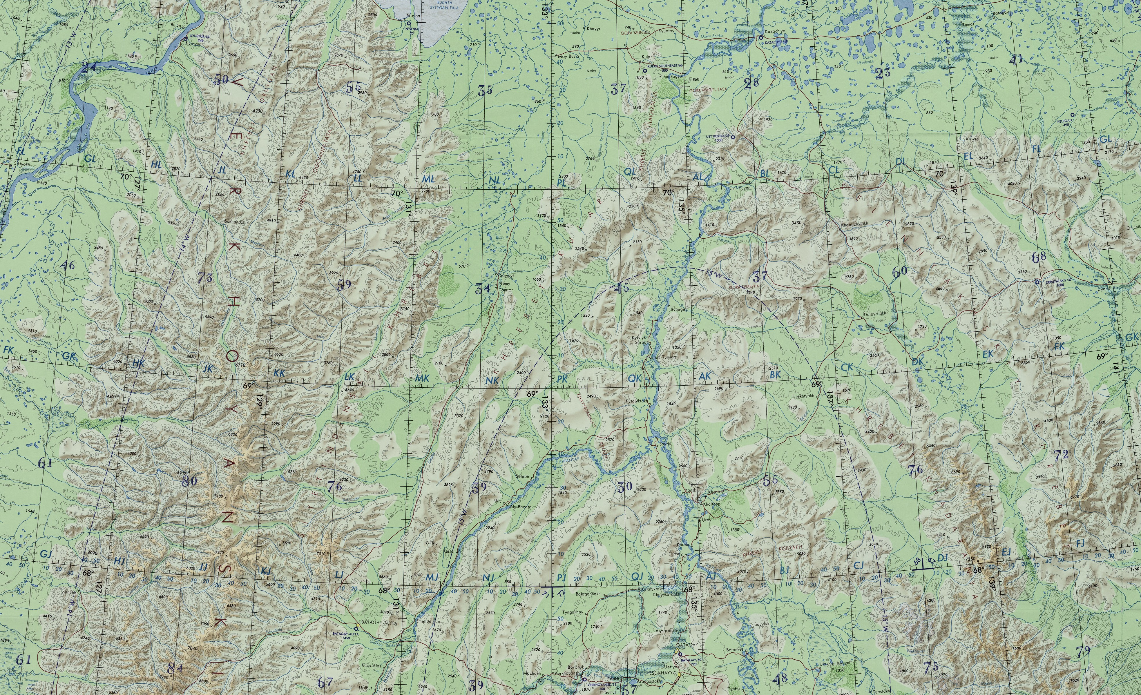 Map section showing the Kular Range in the middle and its Ulakhan-Sis subrange in the north. Sakha (Yakutia), Russia